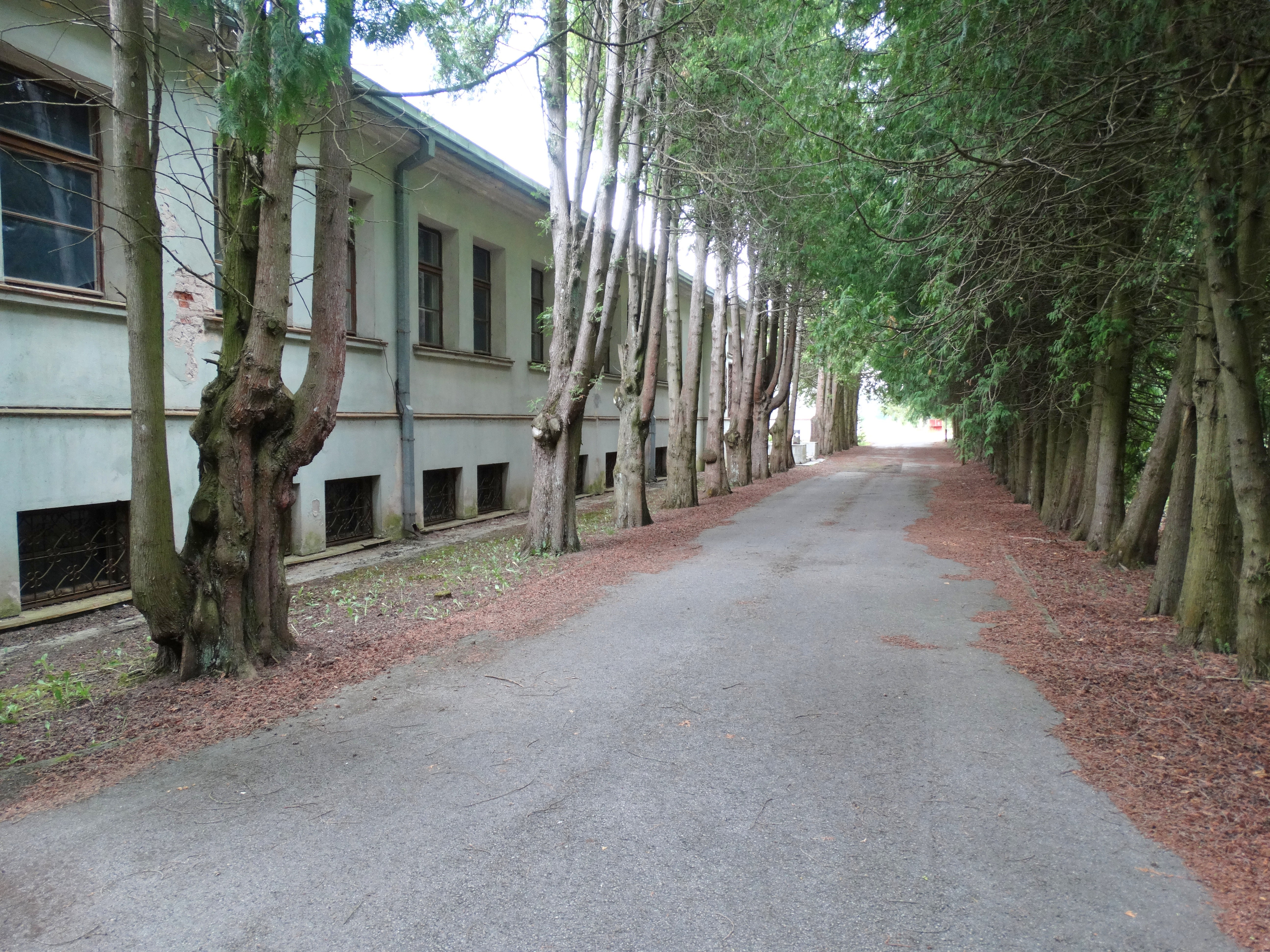 Sitkūnai, former radio station, Kaunas district. Lithuania